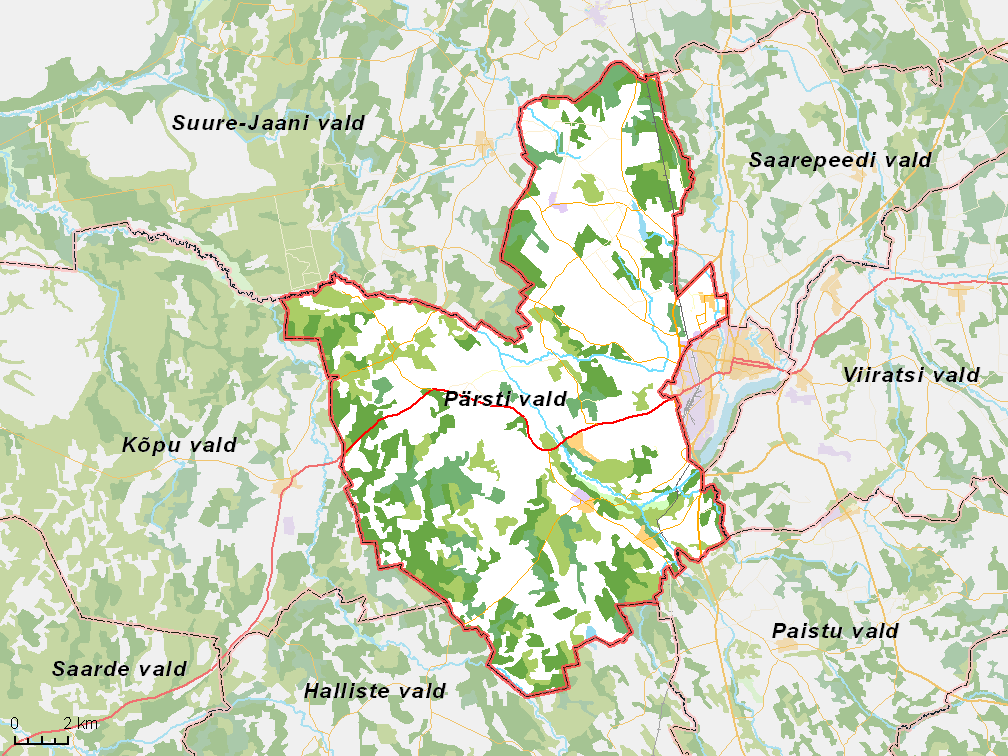 Map of municipality in Estonia